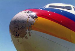 Hail damage to the radardome of TACA flight 110. Date is approximate.